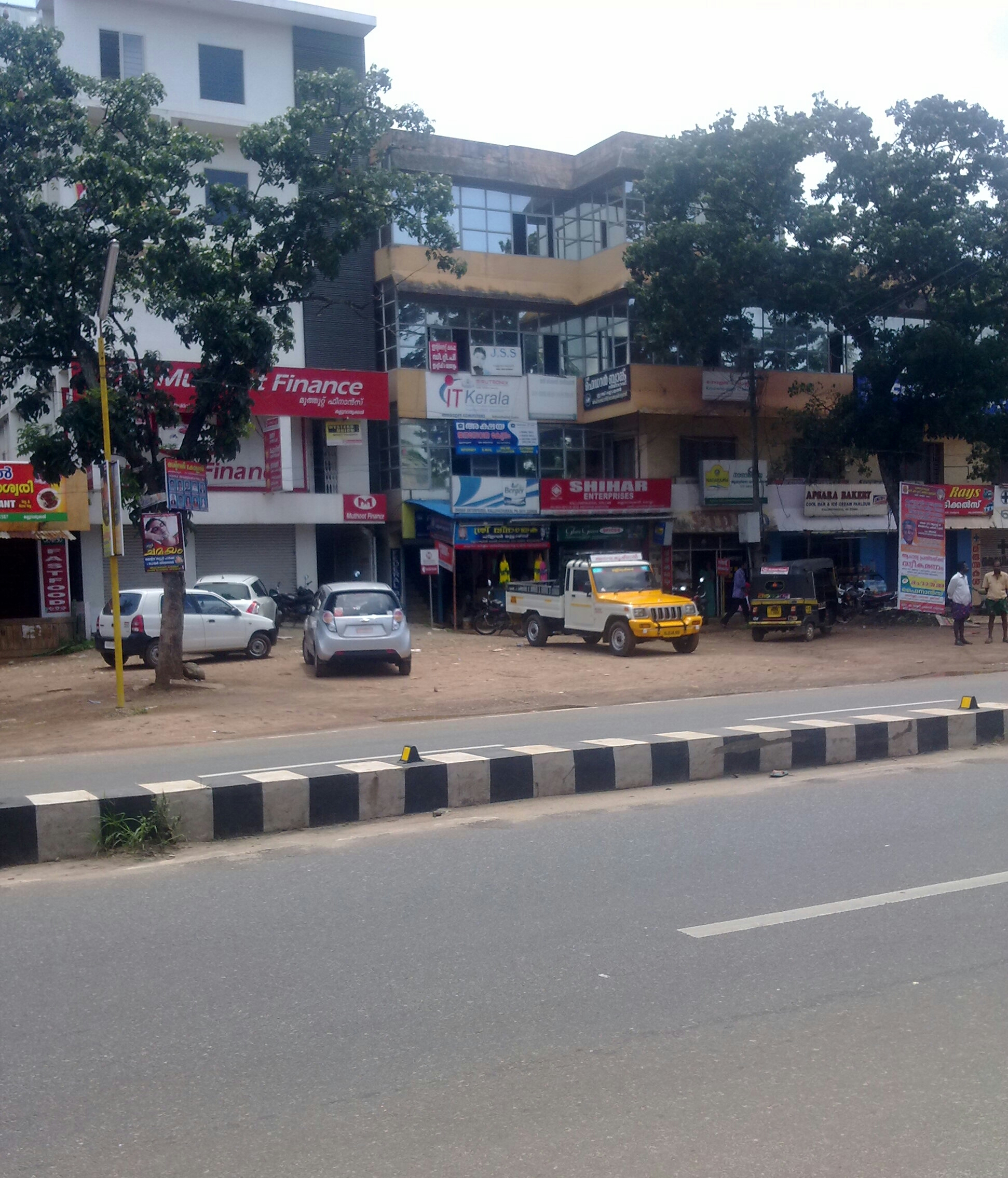 A view of the Kalluvathukkal in kollam district of kerala.